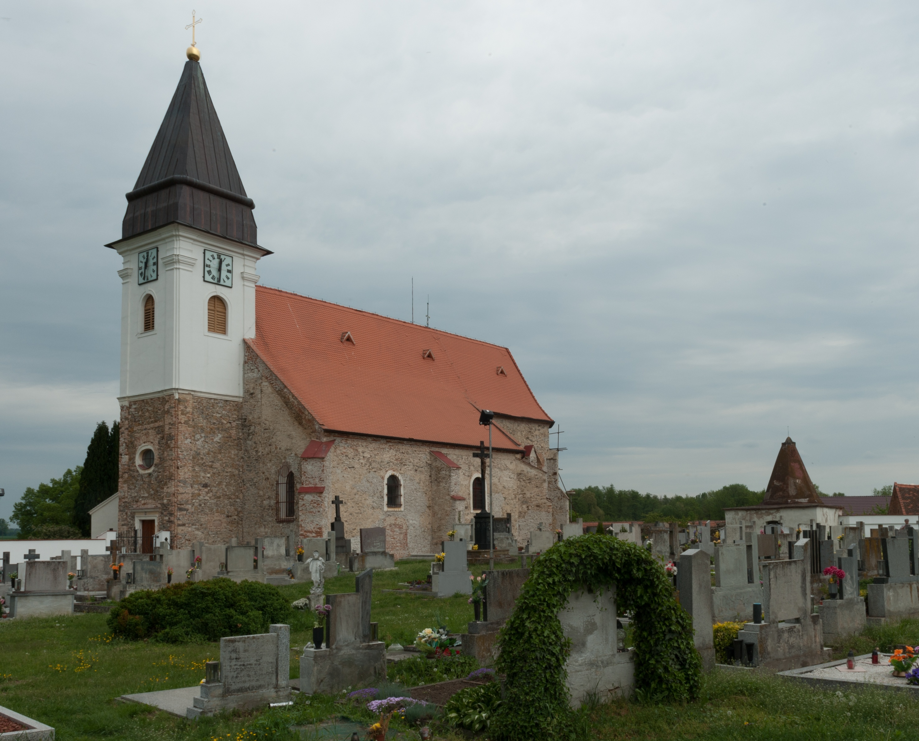 Wikitown Hustopeče: Oleksovice